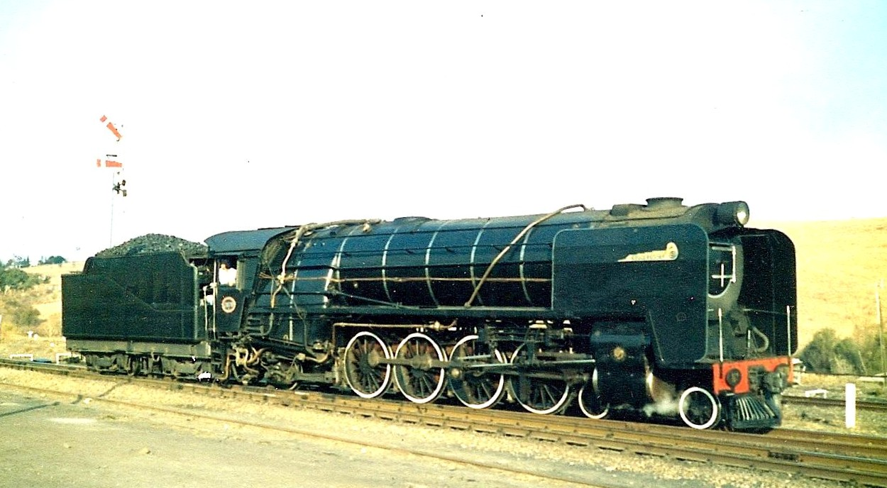 SAR Class 15E 2878 (4-8-2) Location: Magaliesburg